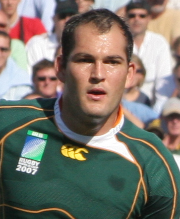 South African rugby union player Fourie du Preez during 2007 Rugby World Cup quater-final against Fiji, that taken place in Marseille.